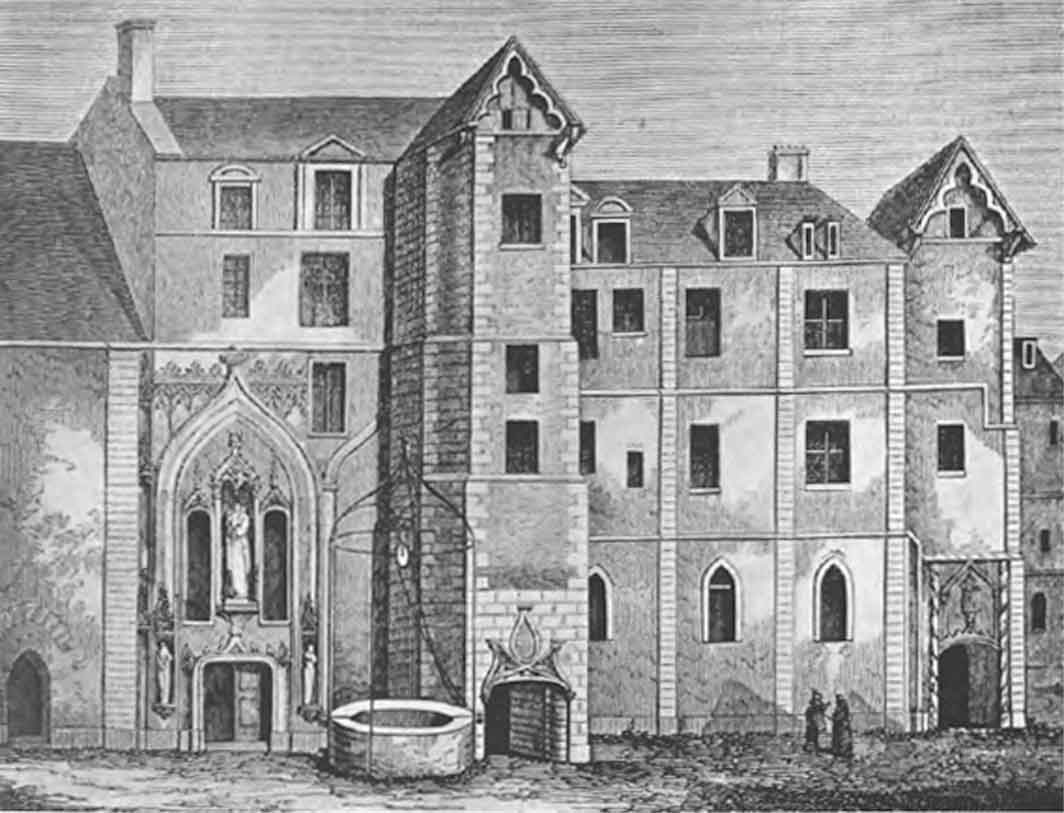 College of Navarre Caption: COLLEGE OF NAVARRE.